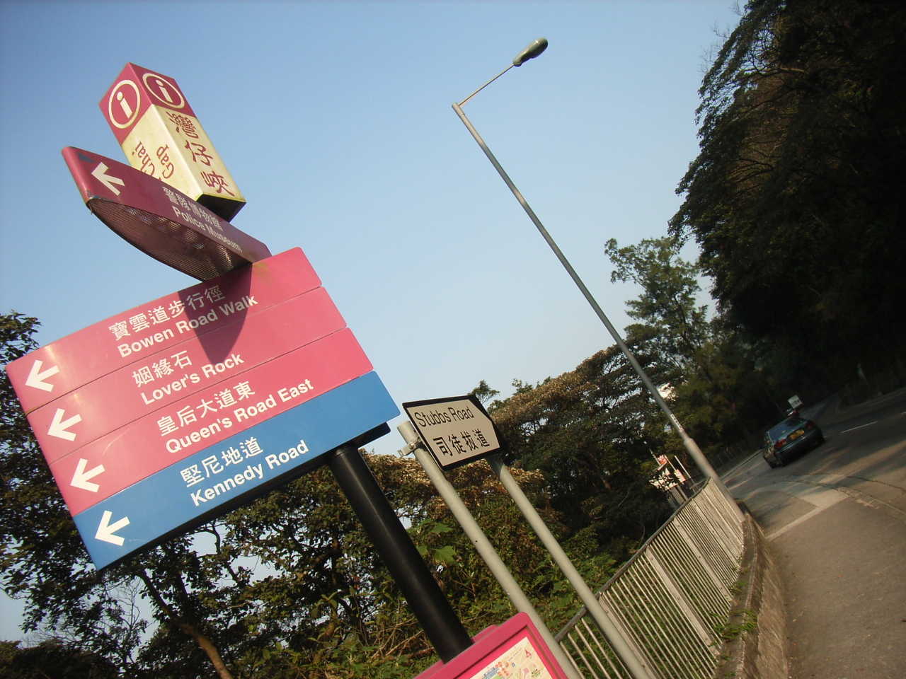 司徒拔道 (Stubbs Road)，是香港的一條連接香港島zh:灣仔及zh:灣仔峽之間的行車道路。 is a road in Hong Kong. Photographer and author is ParkerStarS.